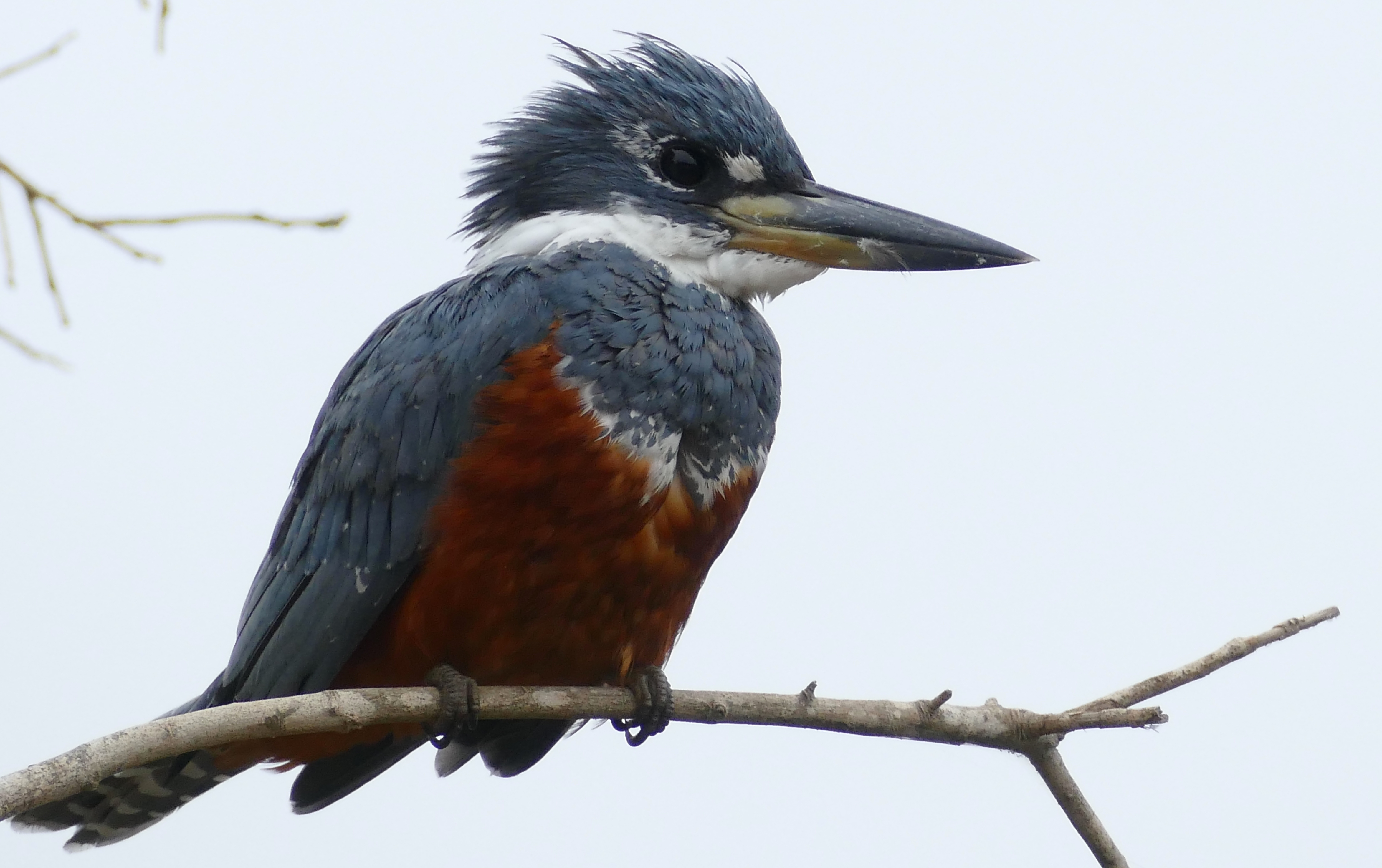 Transpantaneira, Poconé, Mato Grosso, BRAZIL